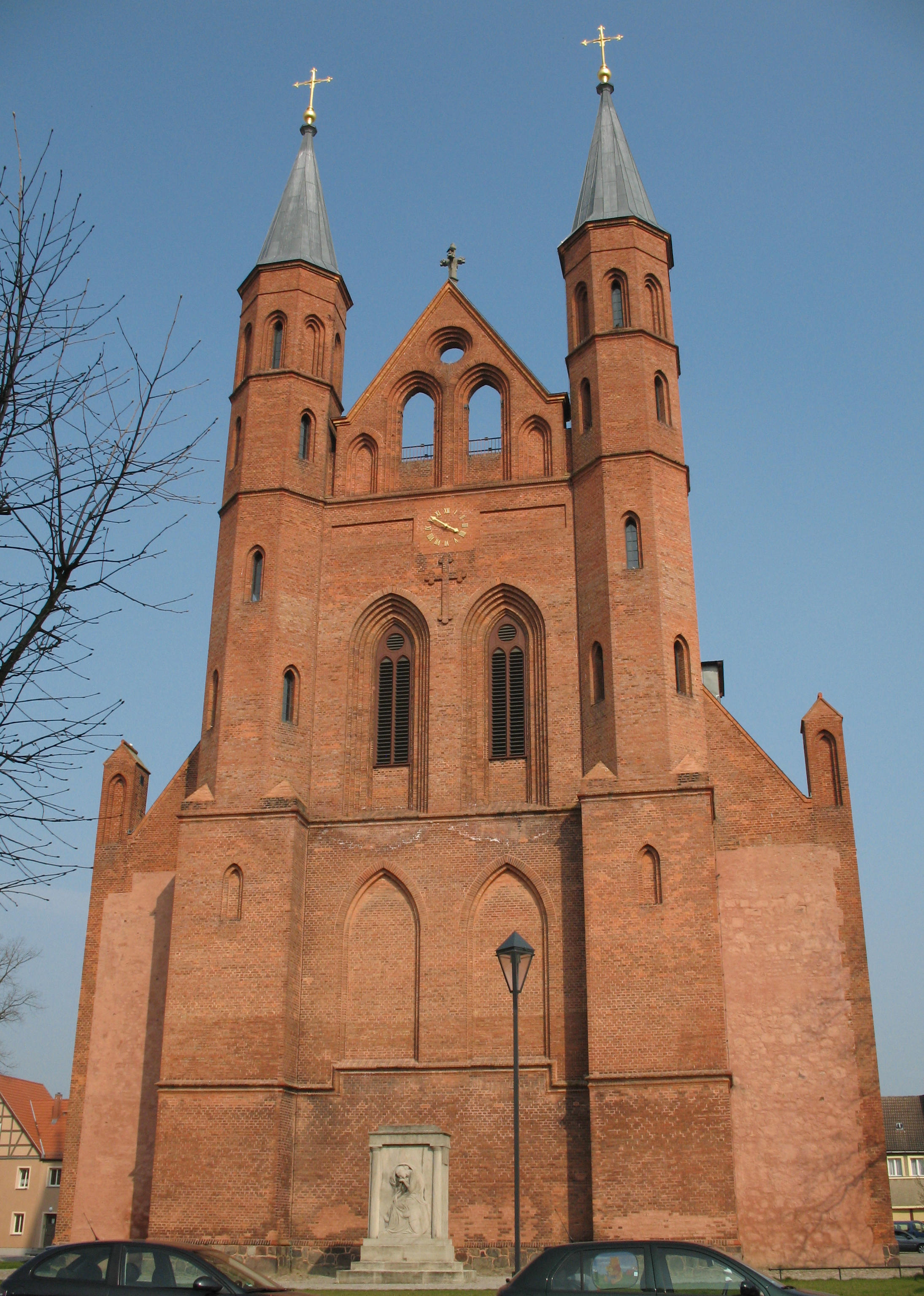 Saint Mary’s church in Kyritz in Brandenburg, Germany